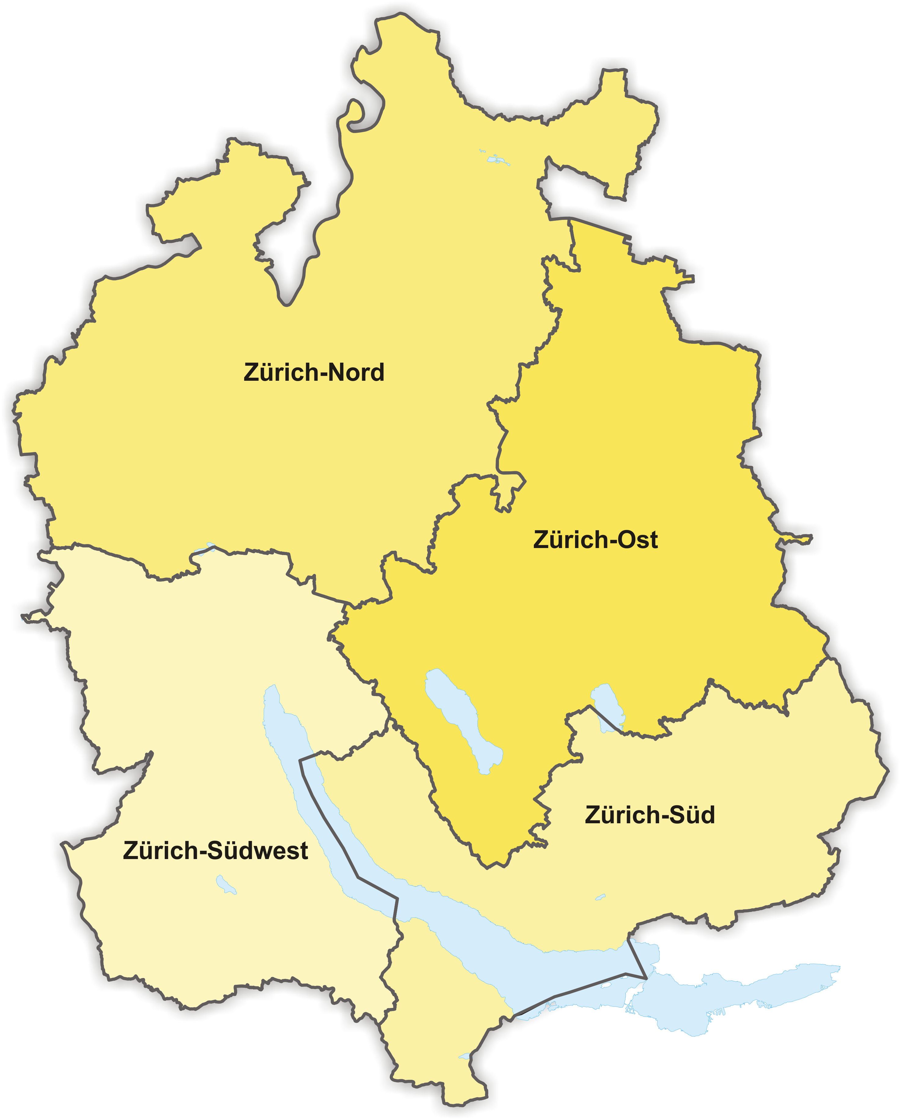 National council constituencies in the canton of Zürich from 1848 to 1878